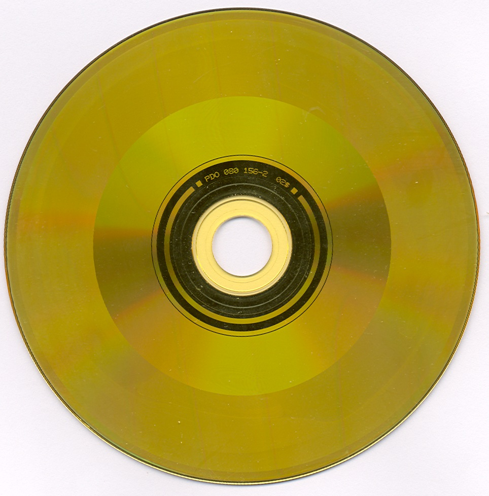 A CD Video Disc (playing side) produced in 1987.